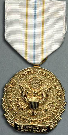 US Arms Control and Disarmament Agency Distinguished Honor Award medal.The Distinguished Honor Award is an award of the United States Arms Control and Disarmament Agency, an independent agency charged with implementing and verifying arms control strategies which has since been merged into the Department of State. This award has been replaced with the State Department's Distinguished Honor Award. This award was presented to groups or individuals in recognition of exceptionally outstanding service or achievements of marked national or international significance.